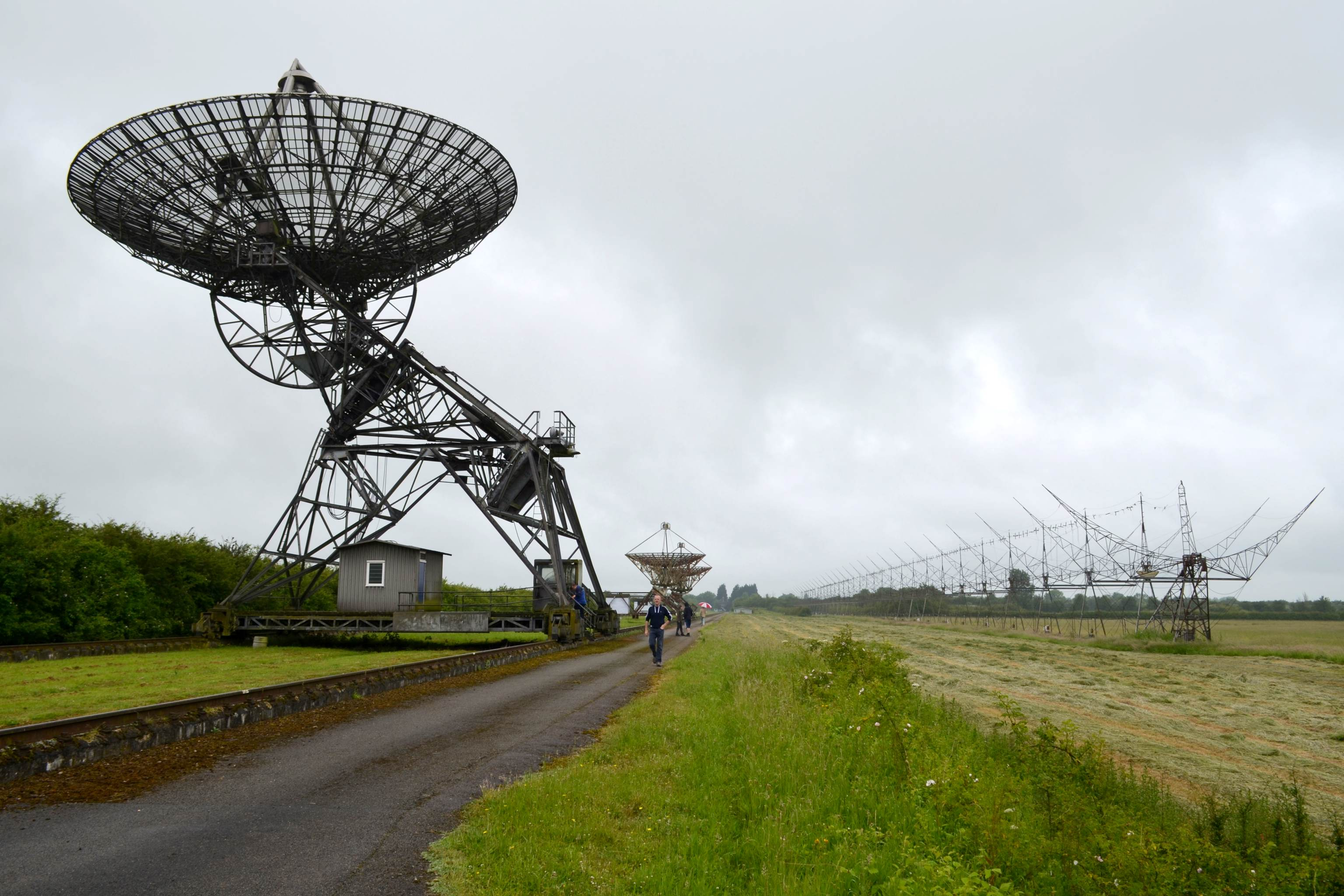 One antenna of the One-Mile Telescope (left), two of the Half-Mile Telescope (centre) and the remains of the 4C Array (right) at the Mullard Radio Astronomy Observatory, Cambridgeshire in June 2014.